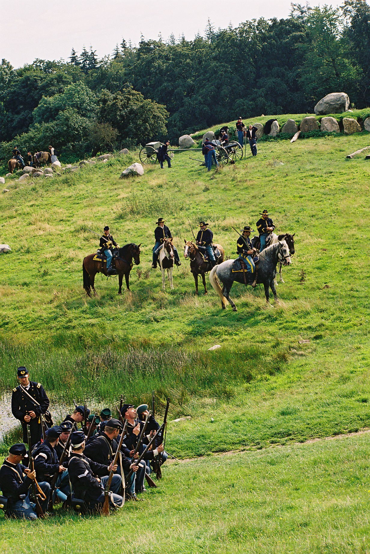 Reconstruction of Battle of Bentonville with reenactors from 15th Wisconsin Infantry, 2nd US cavalry og 4th US Light Artillery